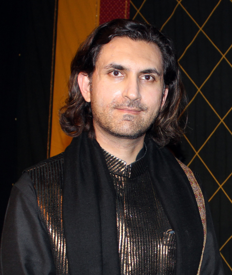 Rahul Sharma Sone of Pandit Shivkumar Sharma after performance and Talk in First Santoor Samaroh (Santoor Concert) at Bharat Bhavan Bhopal